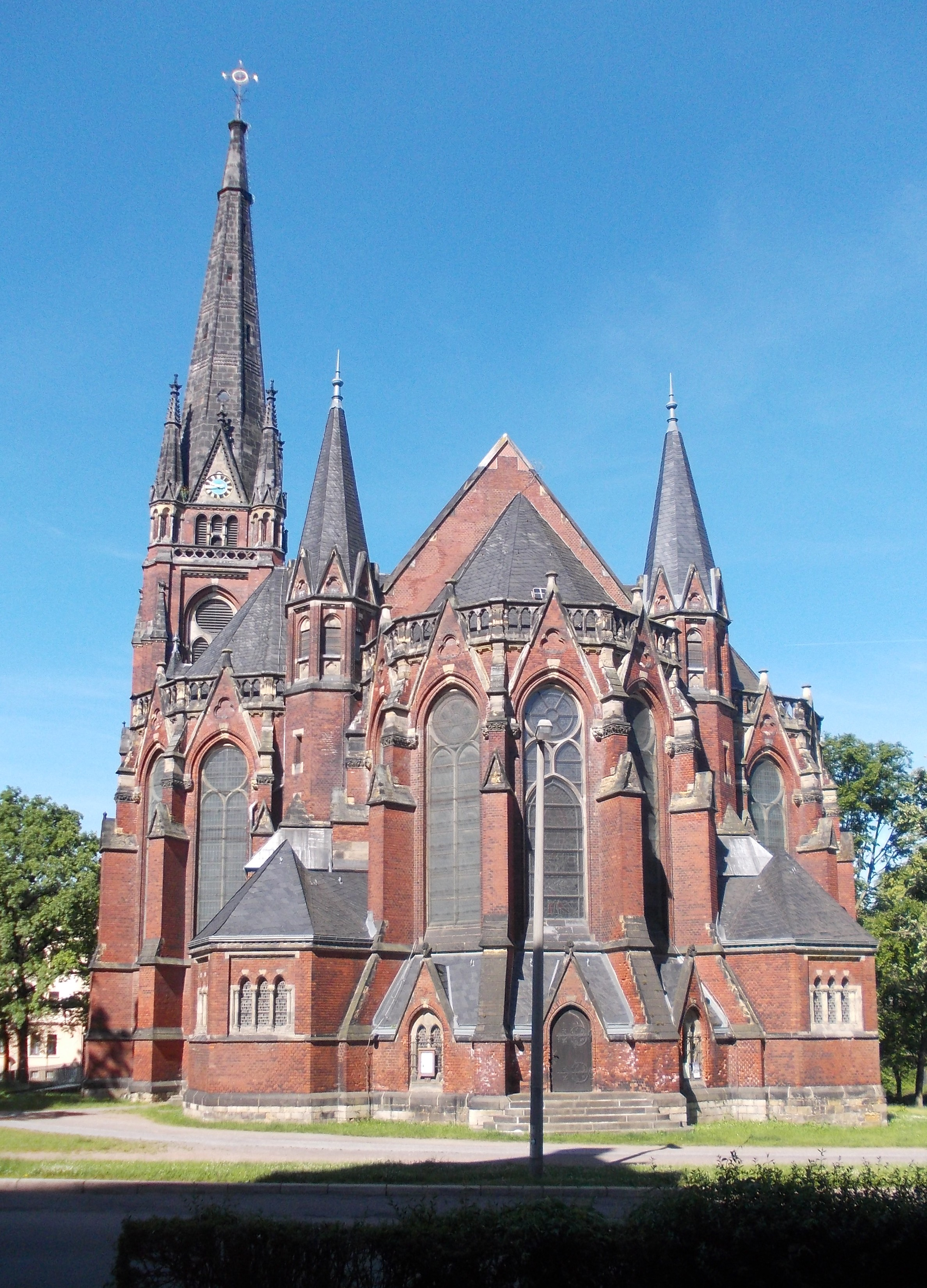 St. John's Church in Gera (Thuringia)